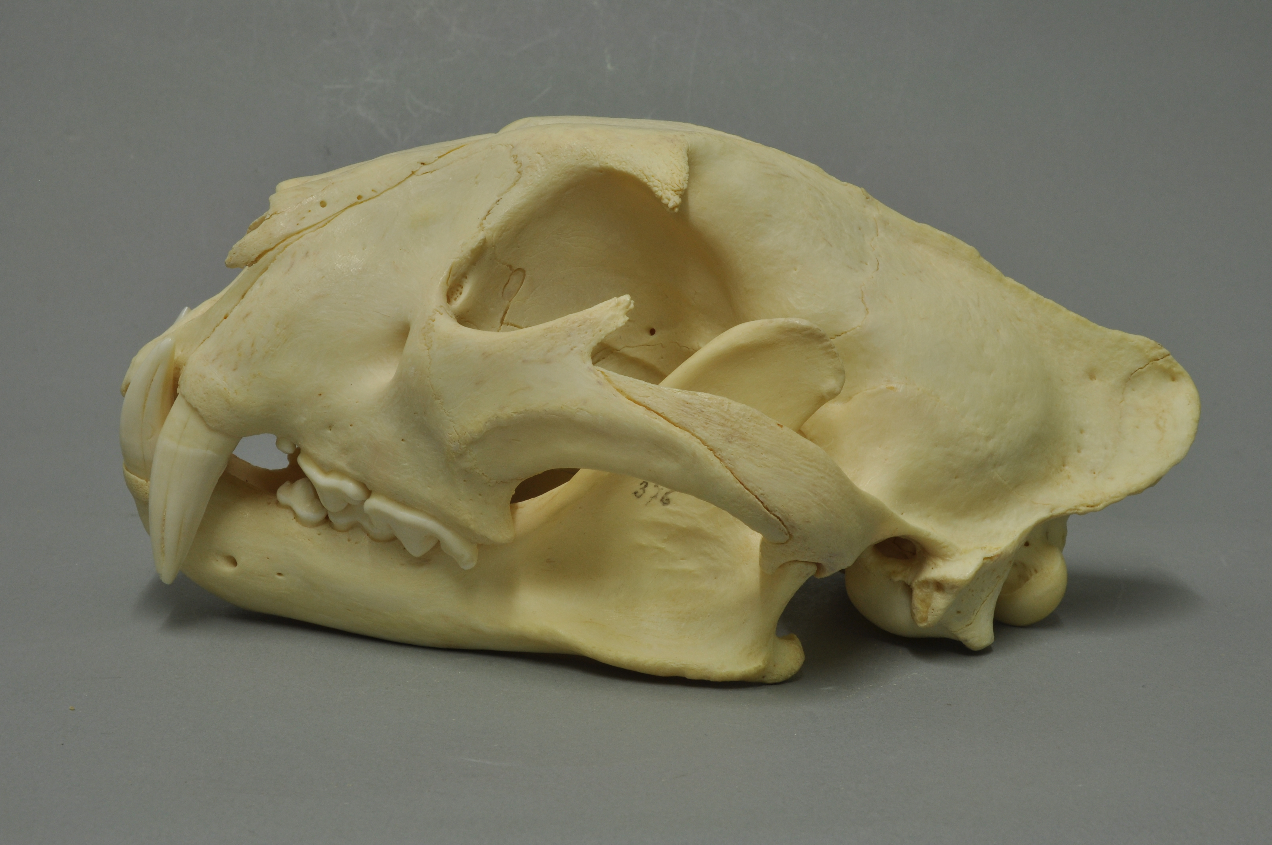 Indochinese leopard Panthera pardus delacouri, skull, Coll. Museum Wiesbaden